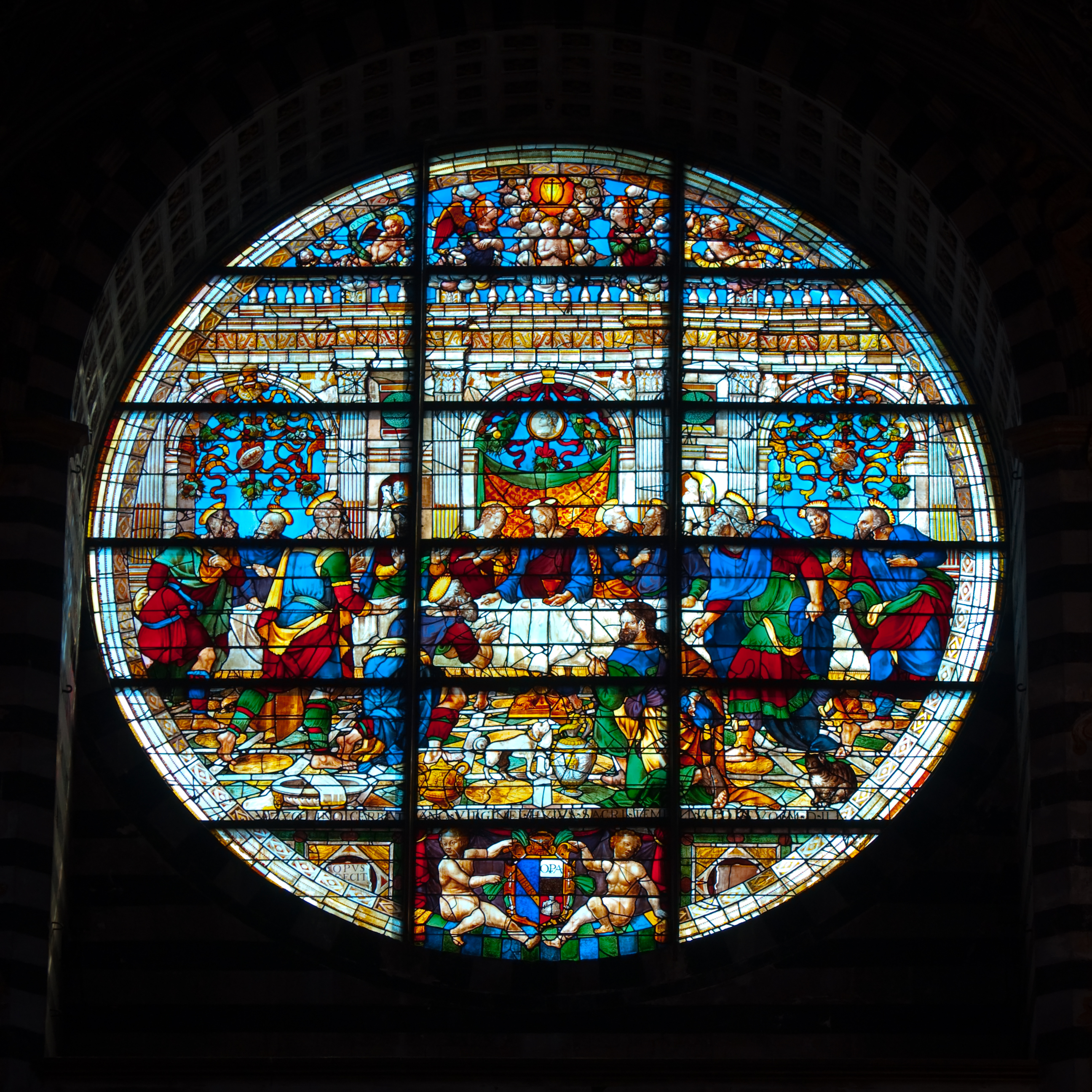 The window over the main portal of Siena's cathedral